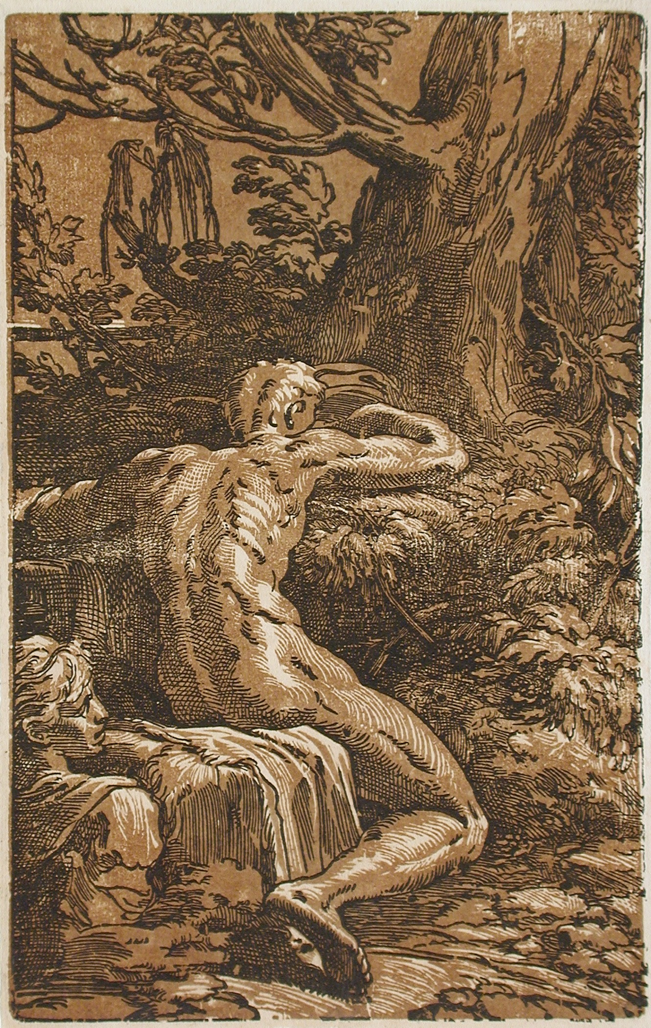 Italy, circa 1527-1530 Prints; woodcuts Chiaroscuro woodcut from two blocks Los Angeles County Fund (59.25.5) Prints and Drawings